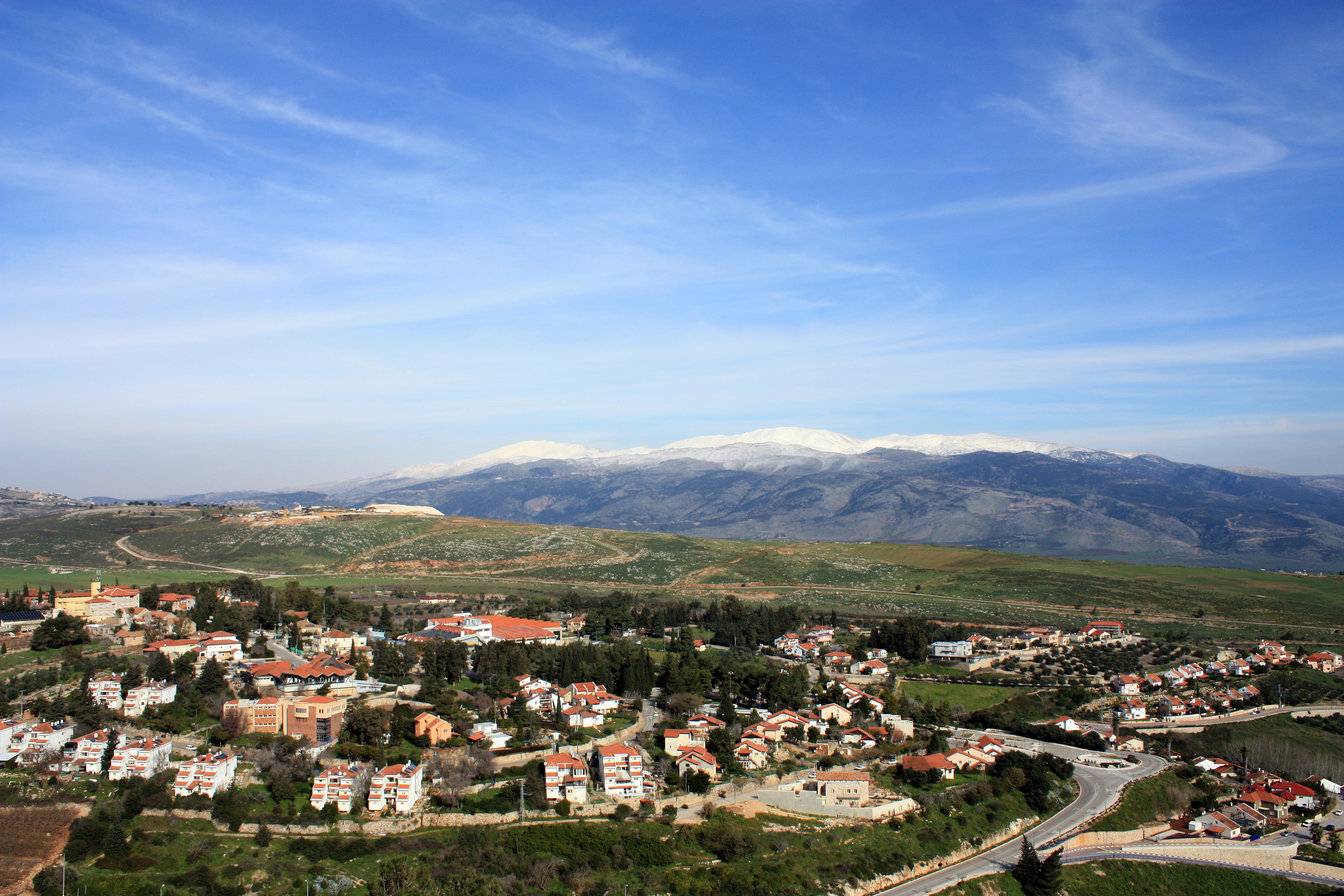 Metula and mount Hermon, View from "Mitzpe Dado"